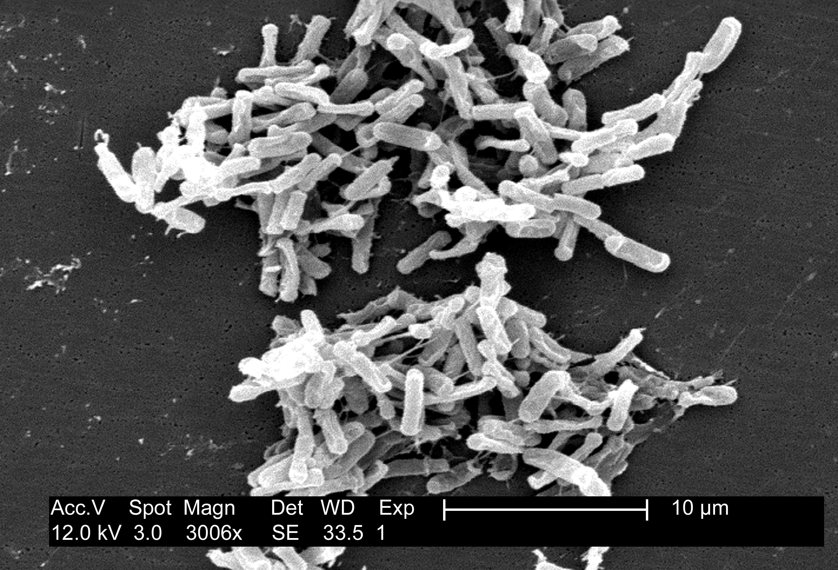 Scanning electron micrograph of Clostridioides difficile bacteria from a stool sample. Obtained from the CDC Public Health Image Library. Image credit: CDC/ Lois S. Wiggs (PHIL #6260), 2004.